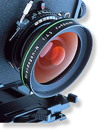 A large format photographic lens.